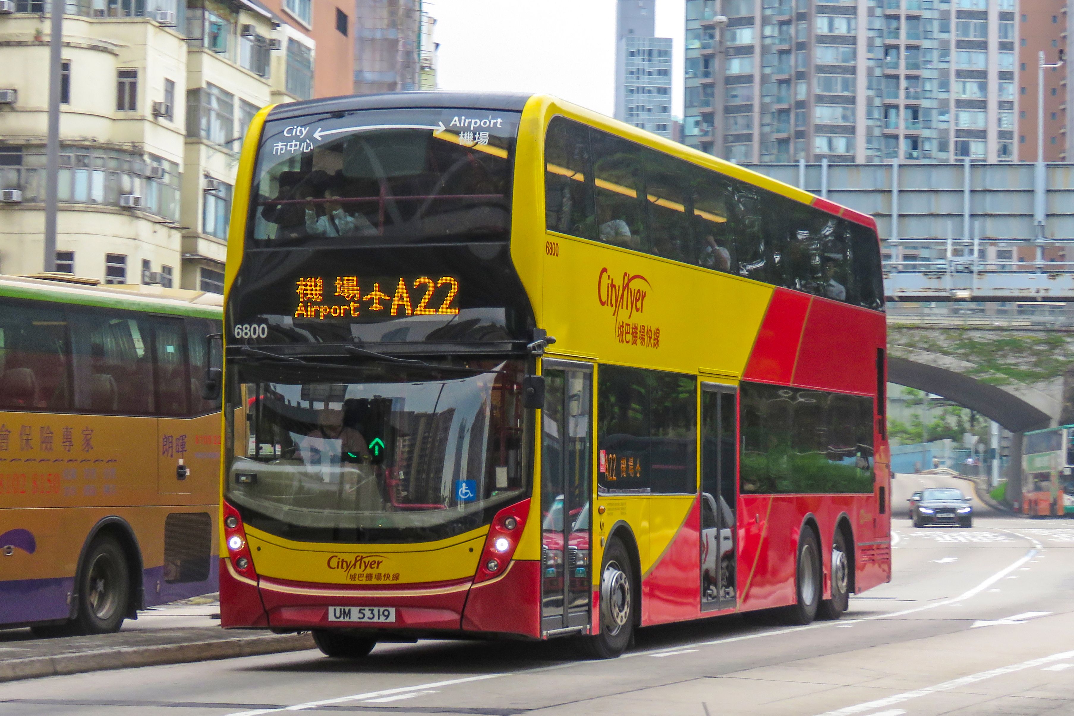 A11, A21, A22 and A29 will be extended to the Hong Kong Border Crossing Facilities of Hong Kong-Zhuhai-Macau Bridge since 24 October 2018.